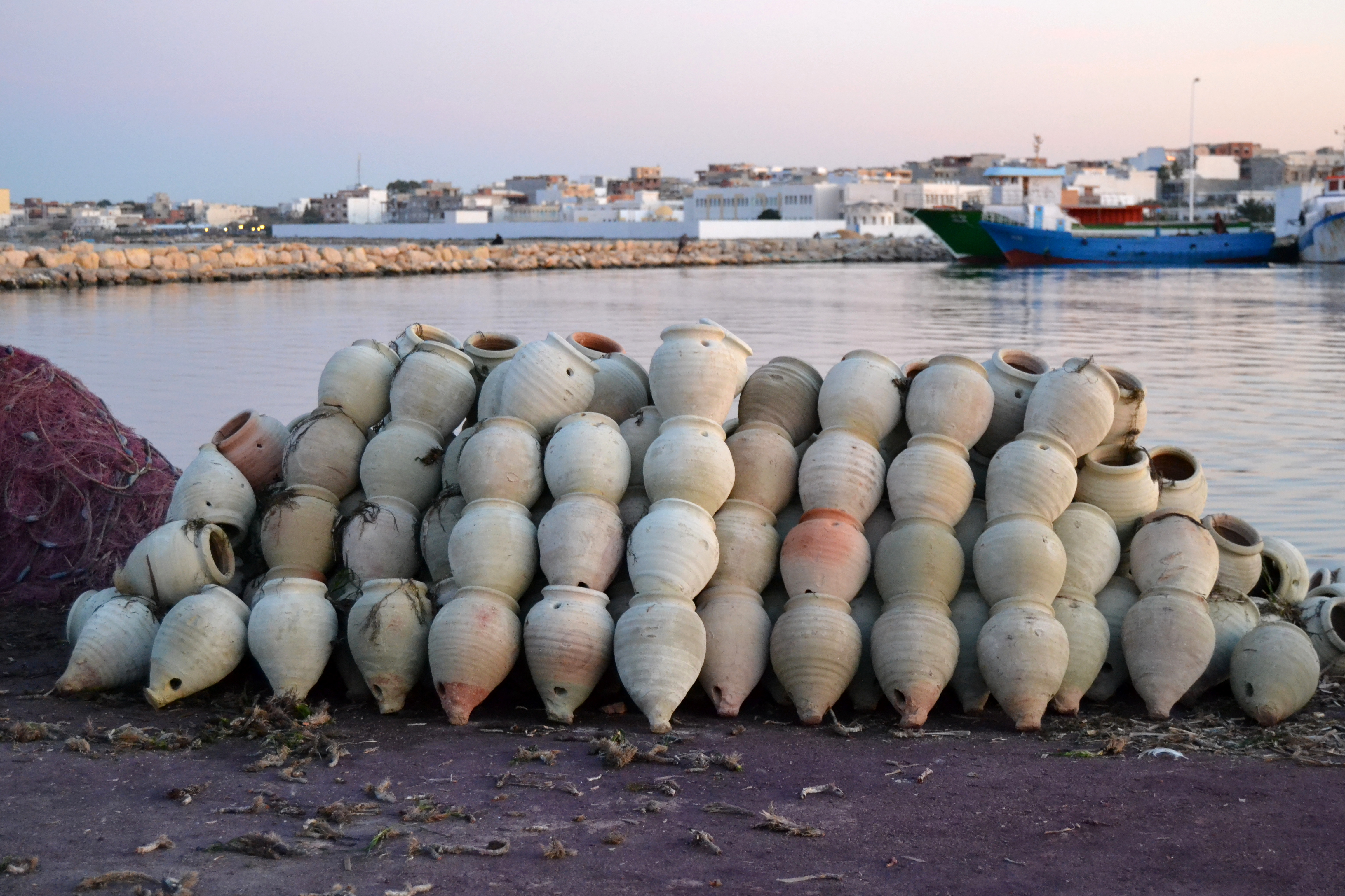 Octopus traps in the fishing port of Sayada, Tunisia